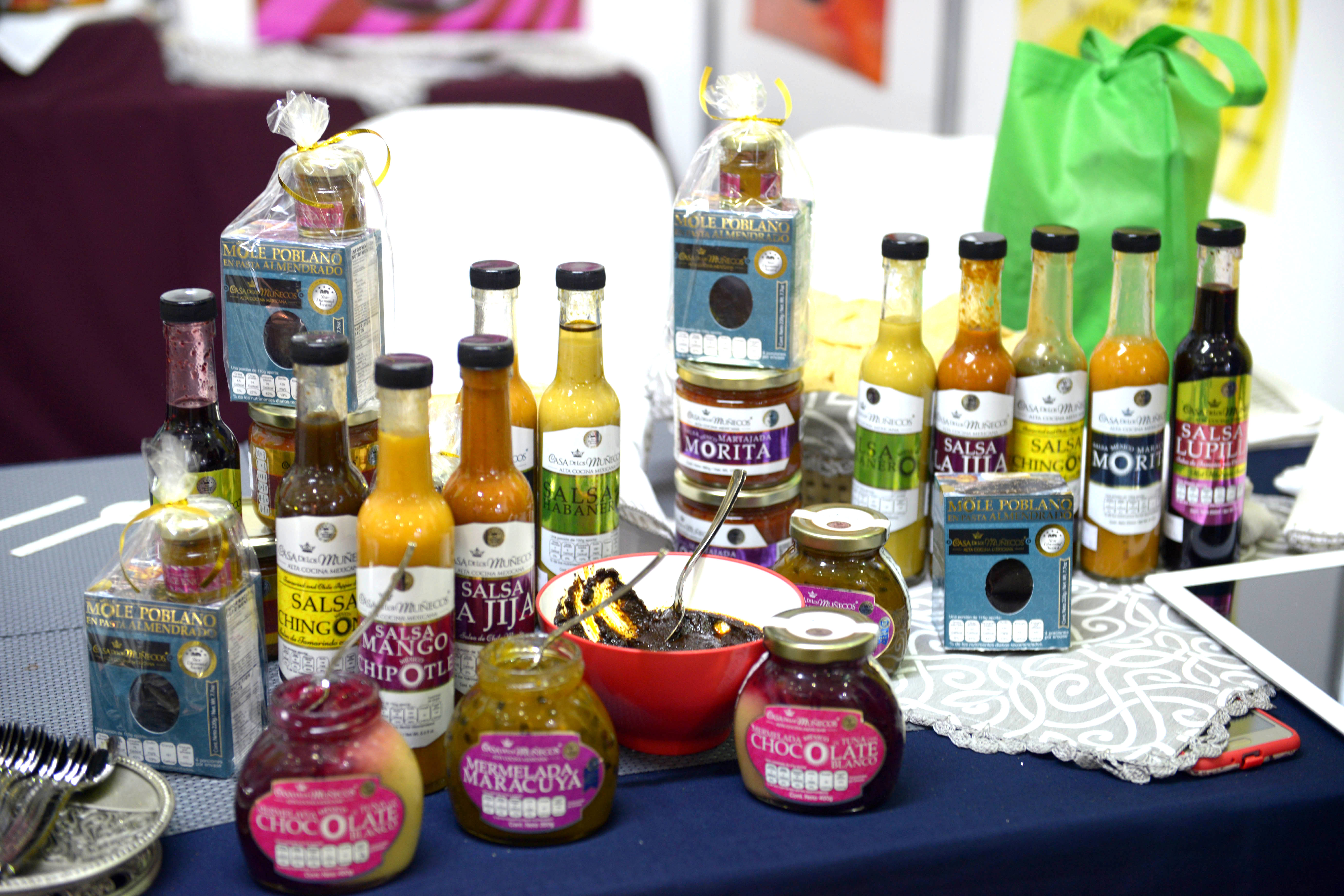 Clausura del 22 Congreso del Comercio Exterior Mexicano. Puerto Vallarta. 02 de octubre de 2015.